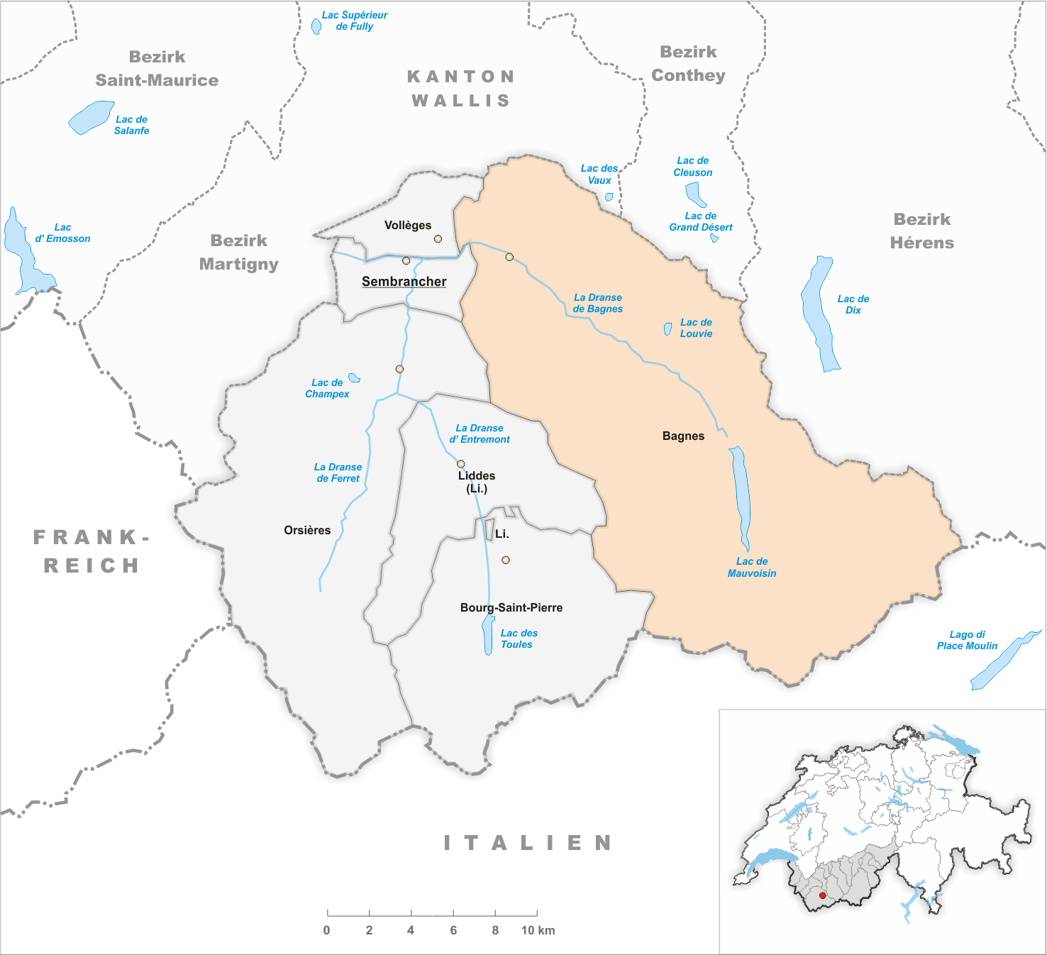 Municipality Bagnes